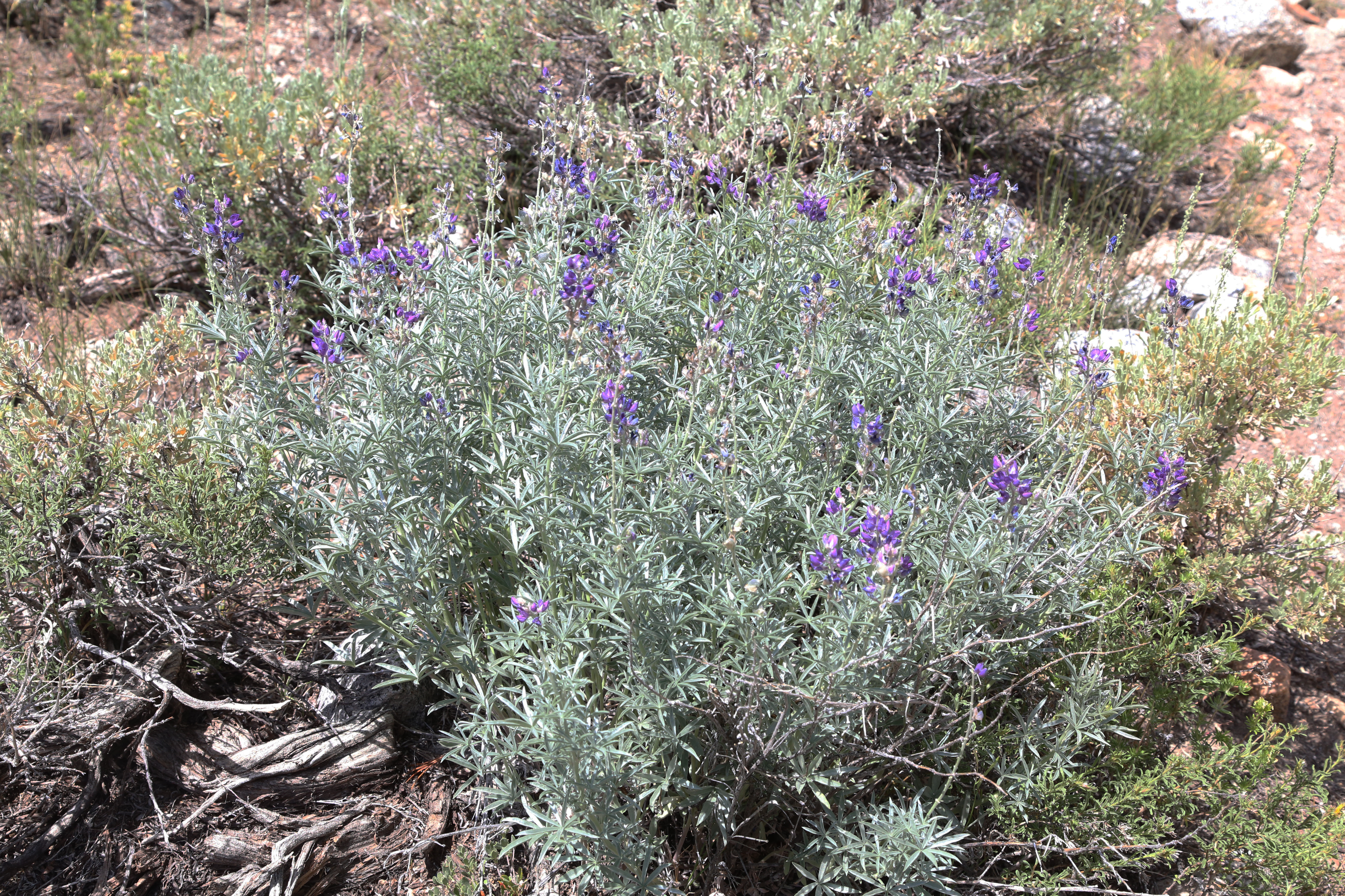 Silver, or alpine, lupine (Lupinus argenteus), plant with silvery leaves and purple flowers. Near outlet of North Lake, Inyo County California, USA.